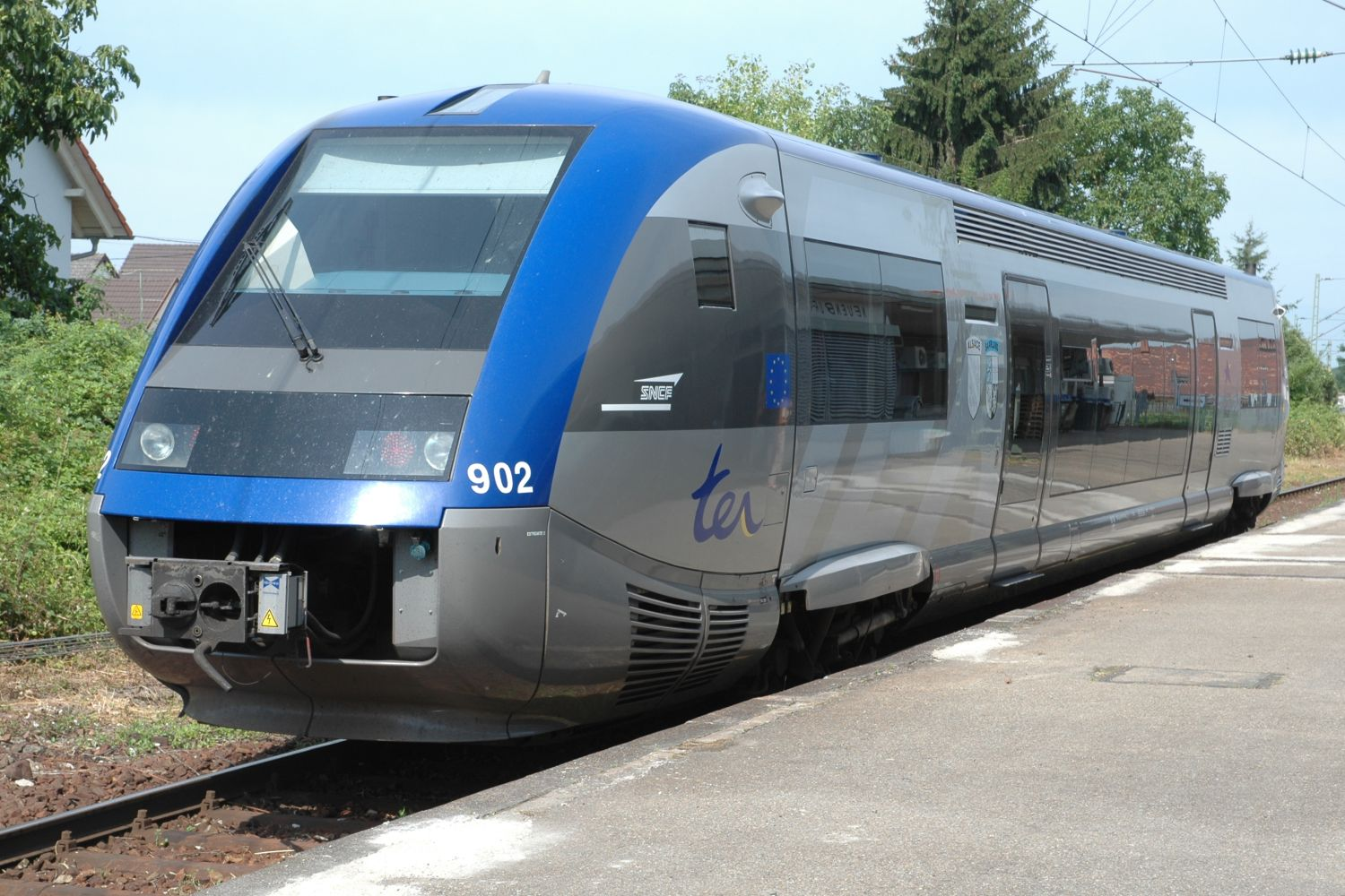 Diesel Railcar "Whale" of the SNCF, with 82 seats on the rail line Müllheim-Mulhouse. Station Neuenburg am Rhein, Baden-Württemberg, Germany